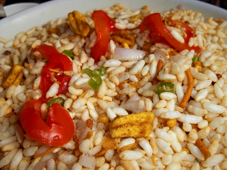 Mudhi (Puffed rice) is a popular Indian food in Odisha (Orissa) and several other places.